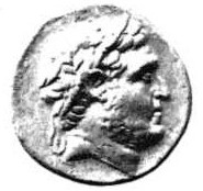 Catalogue of Greek coins. Peloponnesus (excluding Corinth)